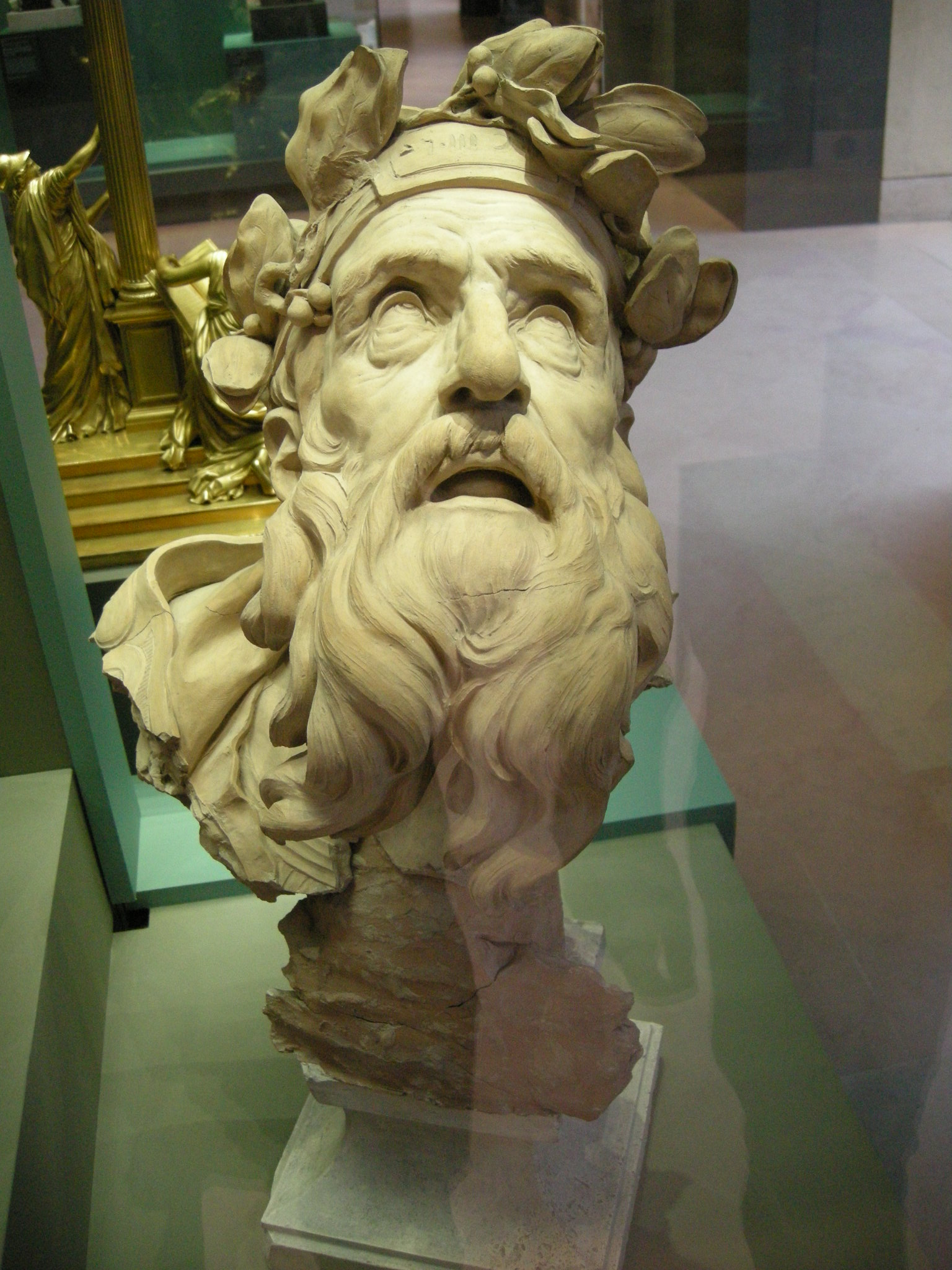 Chryses. Terracotta, ca. 1740. May come from the collection of Ange Laurent Lalive de Jully.